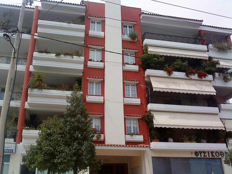 A nice block of apartments at the Kontopefko area of Agia Paraskevi, Athens.